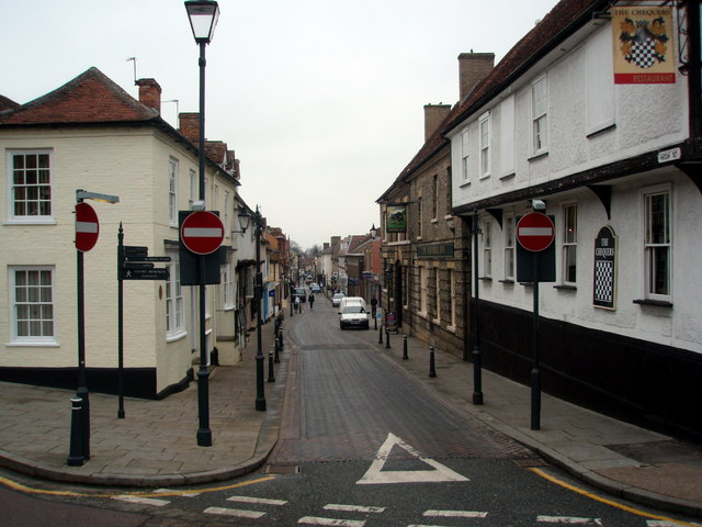 High Street, Royston The Chequers and The Bull public houses on the right and some fine restoration work to the cottages on the left which won a Civic Award from North Herts District Council in 1978